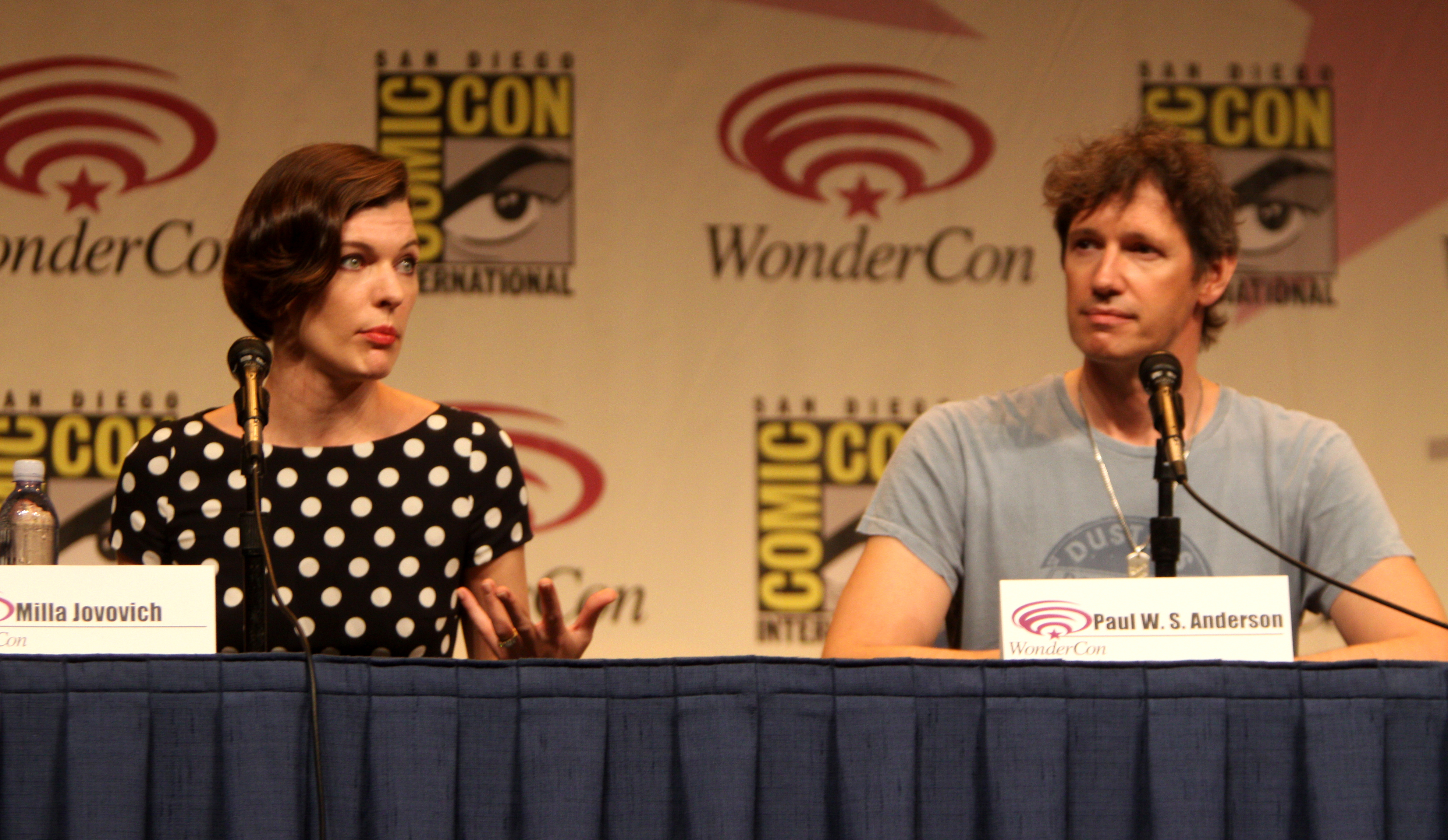 Milla Jovovich and Paul W. S. Anderson speaking at Wondercon 2012 in Anaheim, California on March 17, 2012.